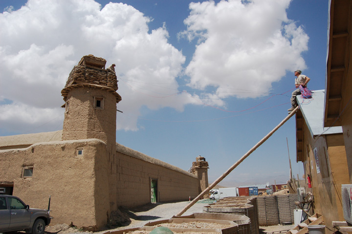 A qalat in southeastern Afghanistan, currently being leased by US forces.